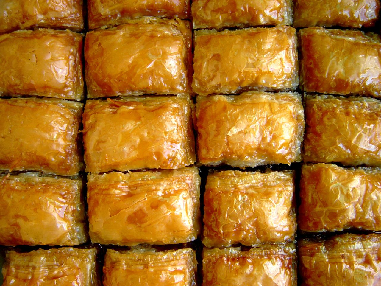 Ingredients: 1 pound phyllo dough 1 pound chopped walnuts 1 teaspoon ground cinnamon 4 tablespoons sugar 1 pound solid vegetable shortening Honey syrup:*** 2 cups water 4 cups sugar 2 tablespoons honey 1 tablespoon lemon juice Directions: Prepare honey syrup and let cool. Preheat oven to 350 degrees. Grease 18-by-12-inch heavy pan with high sides with shortening. Do not use a cookie sheet. Add half of dough. Combine nuts, cinnamon and sugar in bowl. Sprinkle over layer of dough. Top with remaining half of dough. Make diagonal crisscross cuts through dough, an inch apart, creating diamond-shaped pieces. Pour melted shortening over all and bake in preheated oven 45 minutes. Cover with cold syrup. Let baklava cool before serving. Honey syrup: Bring water and sugar to boil in saucepan. Add honey and lemon juice.